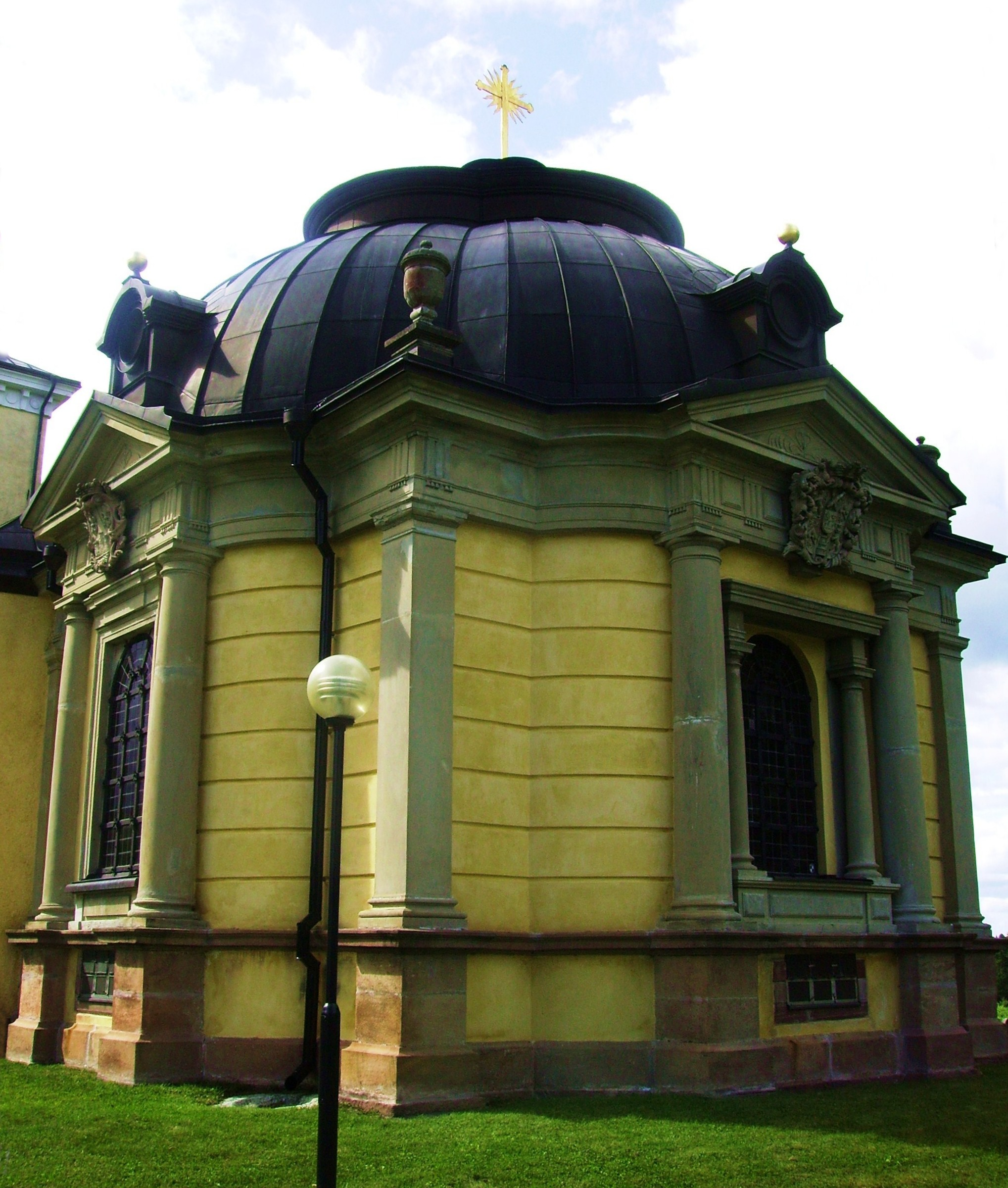 Picture of Erik Dahlberghs grave at Turinge kyrka